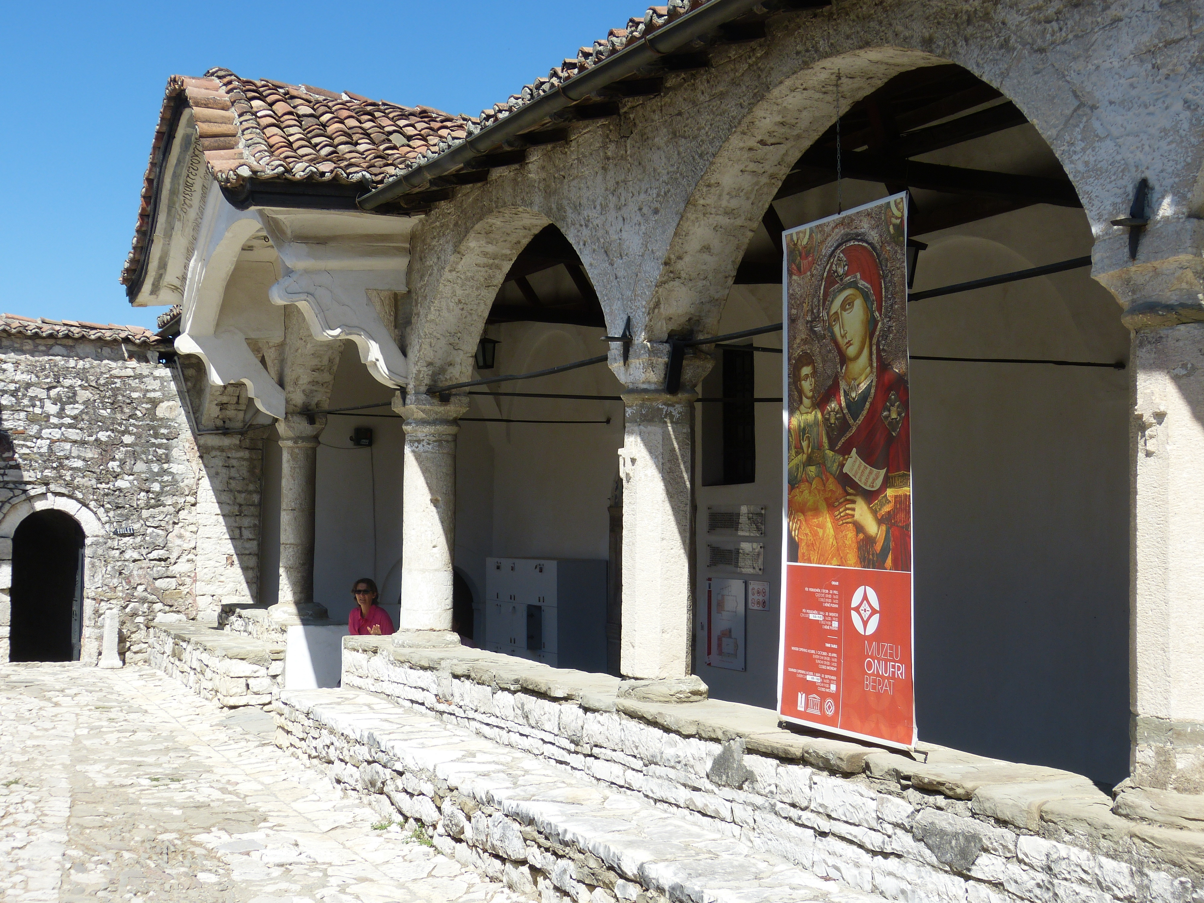 Berat (Albania). Borough of Kalaja - Church of the Dormition ( 1797 ): Narthex.